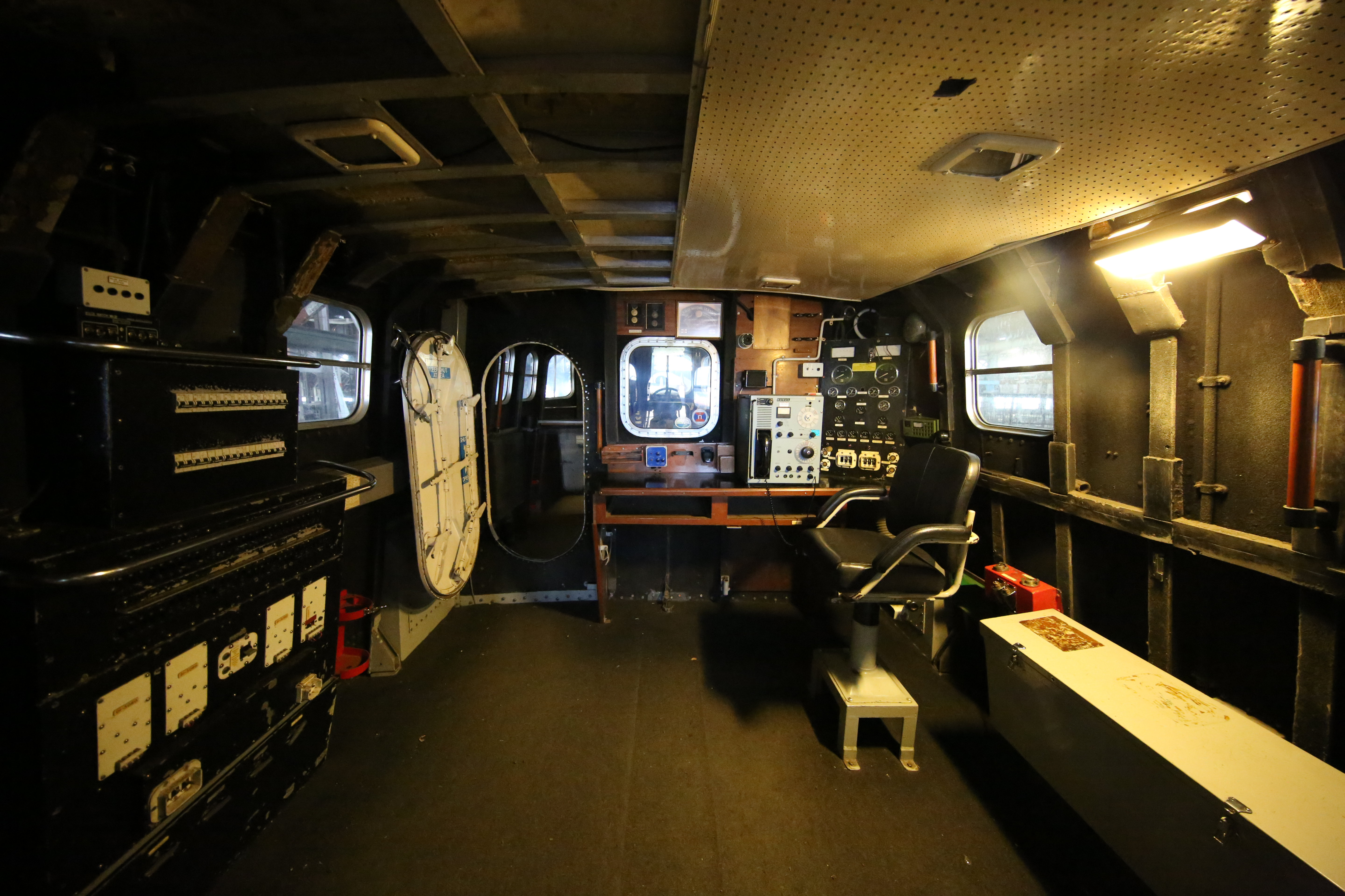 Rear upper cabin of an Arun class lifeboat